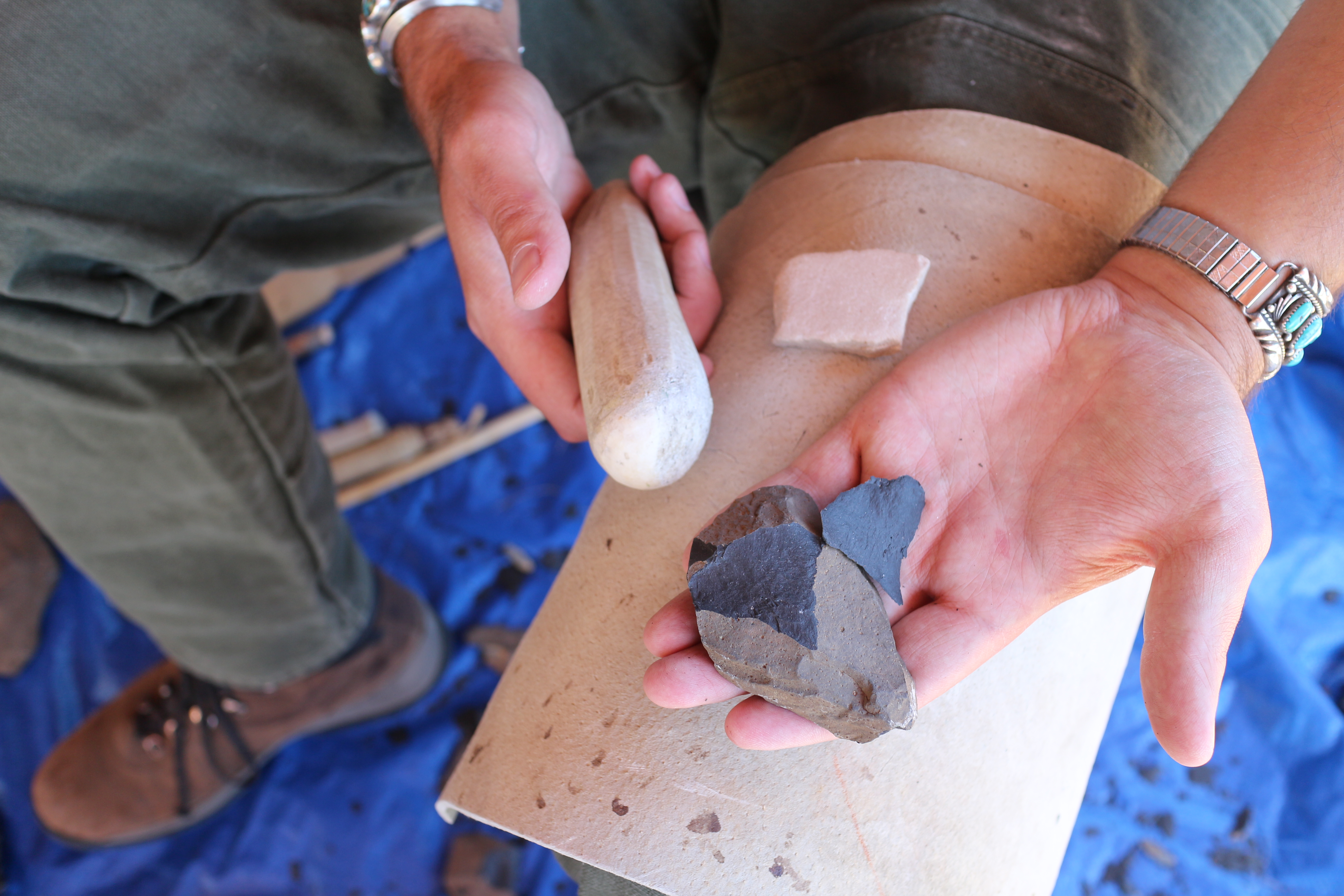 (NPS photo)